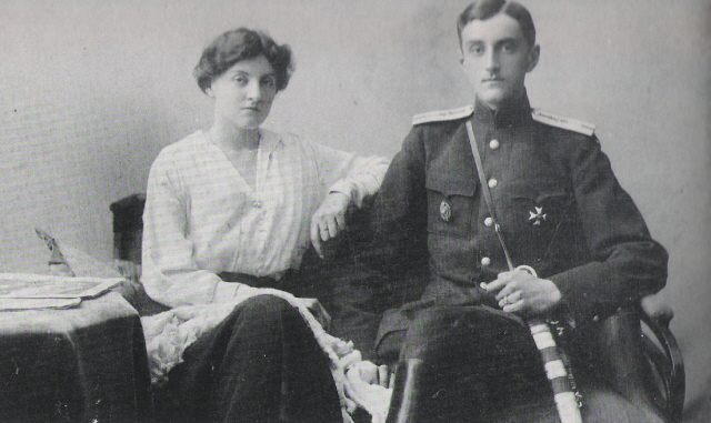 Princess Nadezhda Petrovna of Russia with her brother, Prince Roman Petrovich of Russia